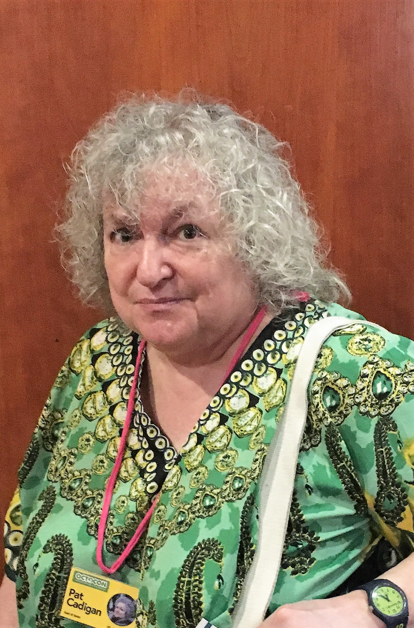 Pat Cadigan in 2018 as Guest of honour at Octocon, Dublin